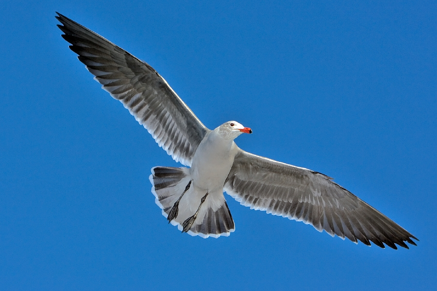 Larus heermanni - Heermann's Gull, City Wharf, Huntington Beach, California